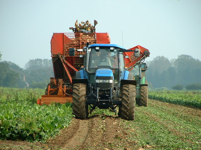 Upping the Beet. Lifting sugar beet from the fields.